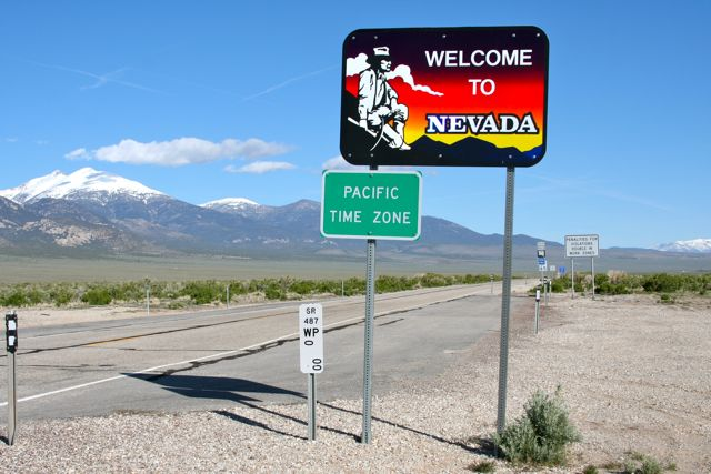 Beginning of Nevada State Route 487 at Nevada-Utah state line, with Wheeler Peak (Nevada) in background.(The view to Wheeeler Peak-(Snake Range) is WNW, about 15-mi, (Nevada DeLorme Atlas); the site is also up-valley in the Snake Valley (Great Basin).)